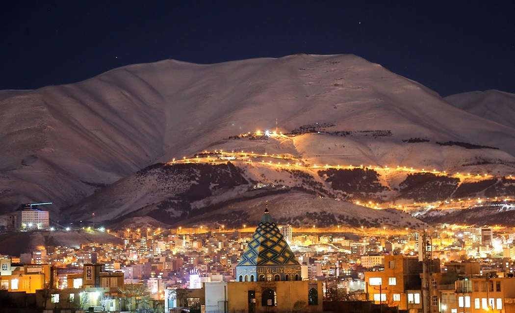 Sanandaj